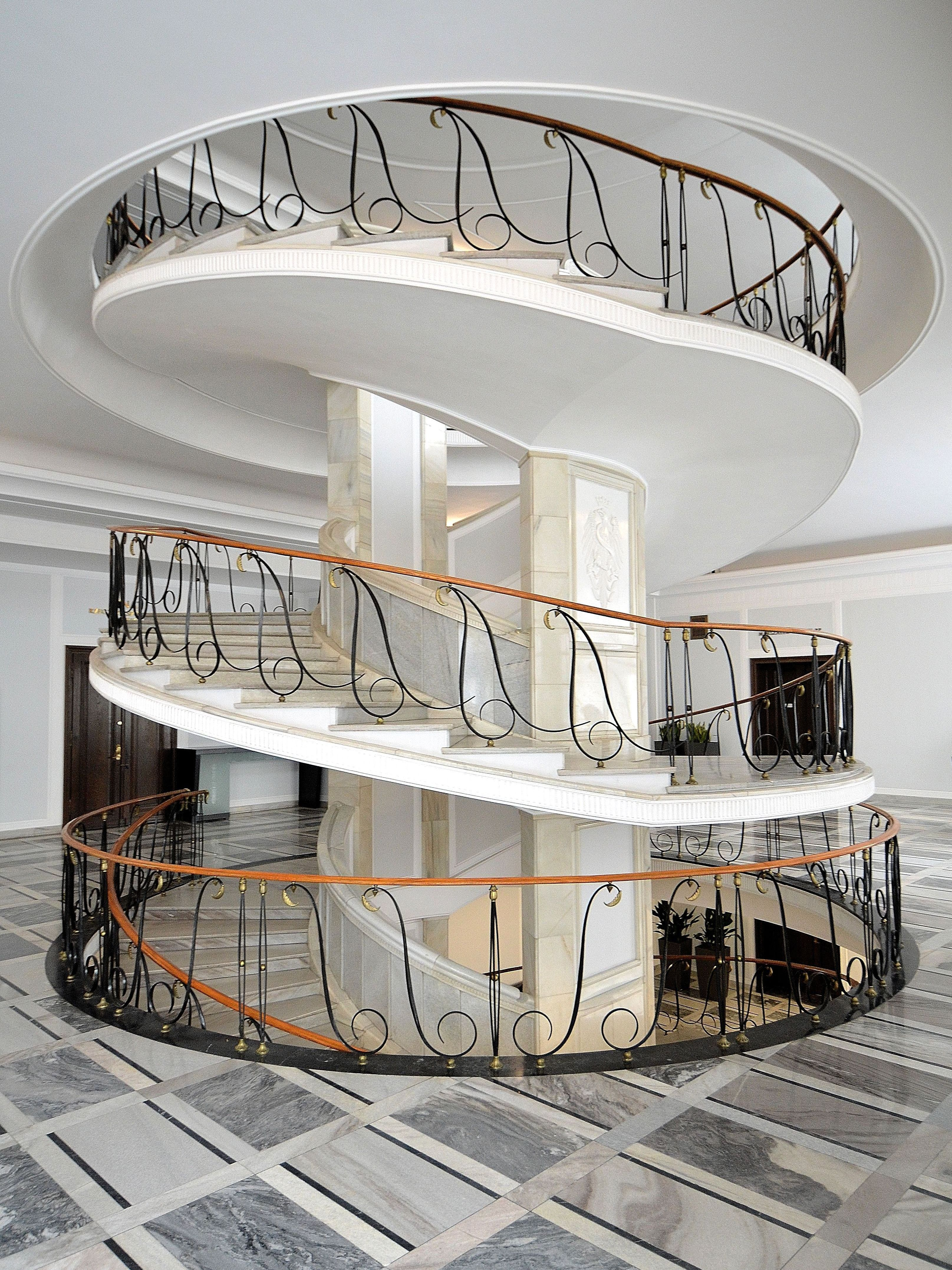 Oval staircase in the Senate building in Warsaw (listed in the Register of Historic Monuments on 6.04.1973, reference no. 815)